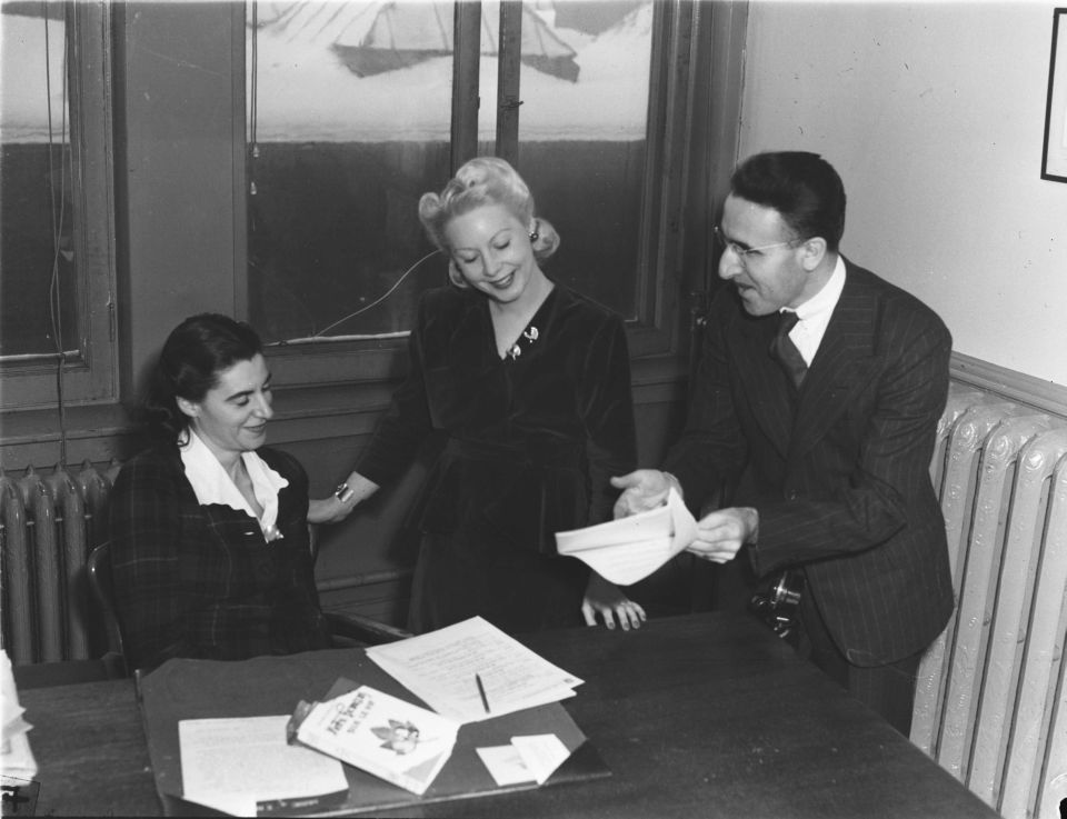 Three employees of the radio program "Our French live" broadcast by Radio-Canada in Montreal. We see the Judith Jasmin director talking with the actress and Olivette Thibault Professor Lawrence.